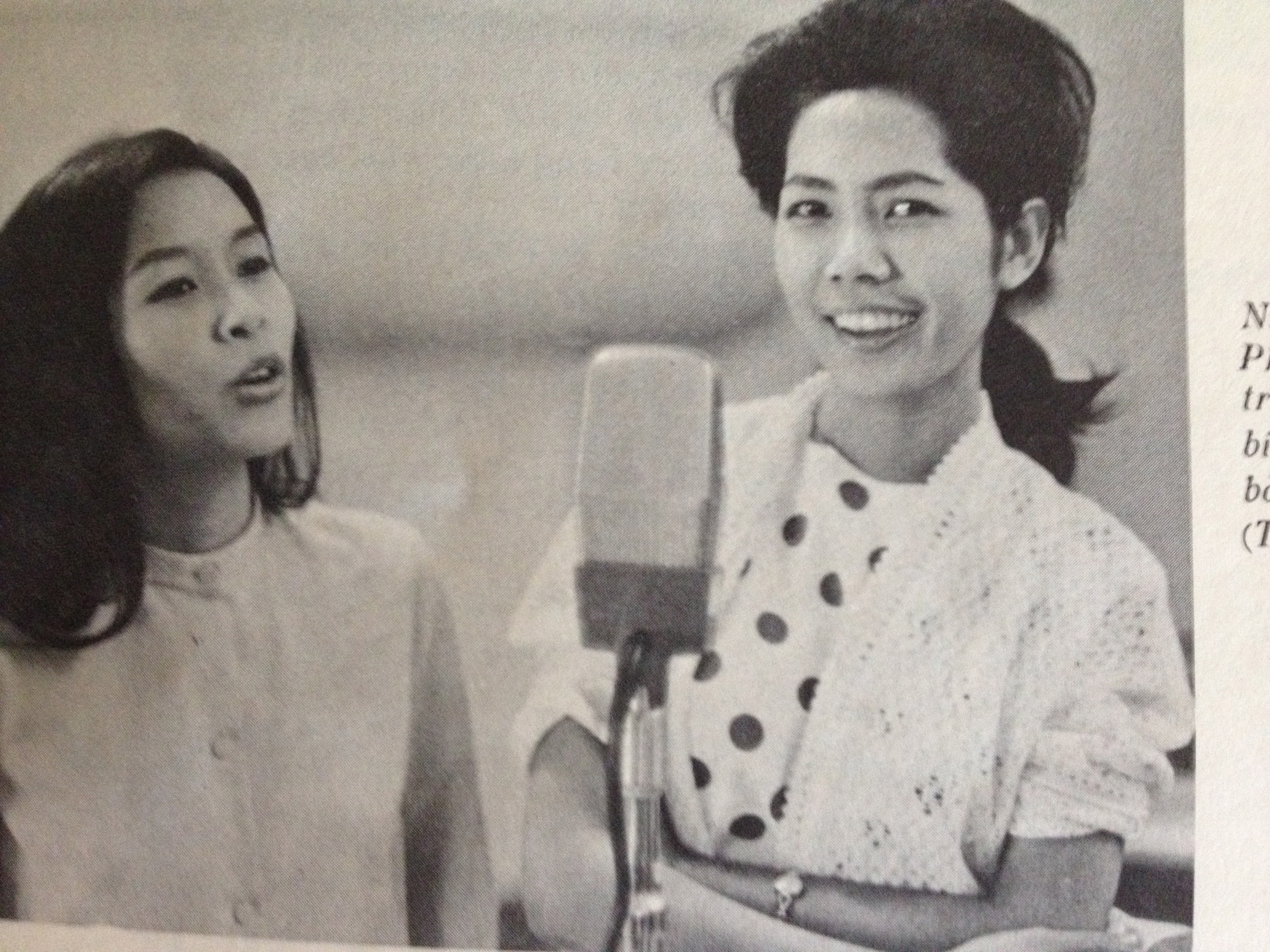 Vietnamese pop singers Tâm-đan and Phương-dung at the Radio of Vietnam Armed Forces Broadcasting ServiceTiếng Việt: Đôi ca-sĩ Tâm-đan và Phương-dung trình-bày tại Đài Tiếng-nói Quân-đội